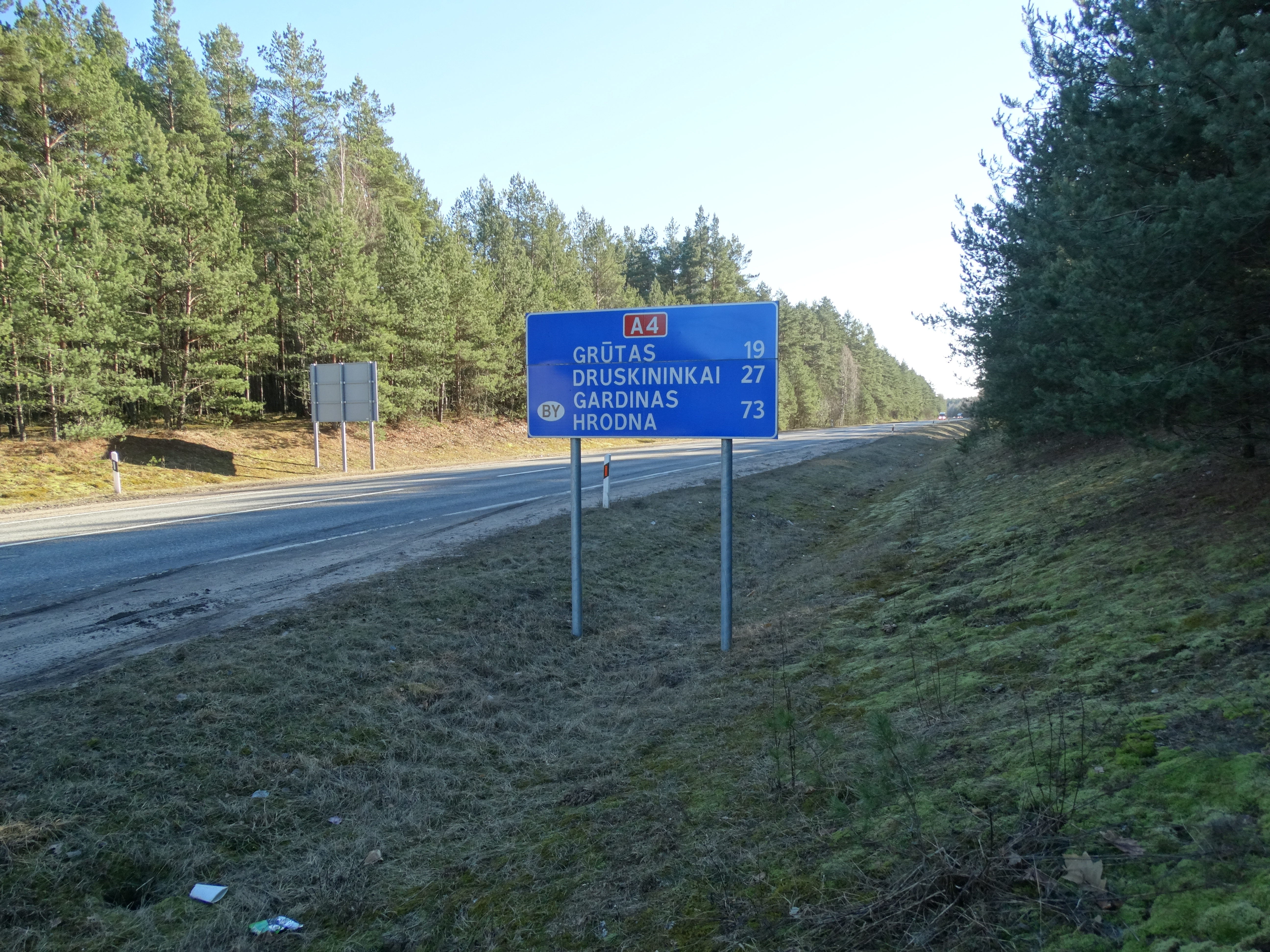 Road A4, Varėna district, Lithuania